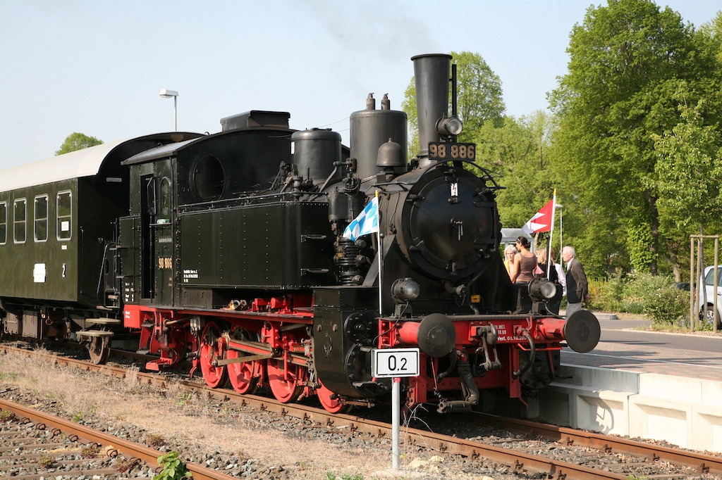 A former Bavarian GtL 4/4 locomotive, DRG no. 98 886, in Mellrichstadt in April 2007